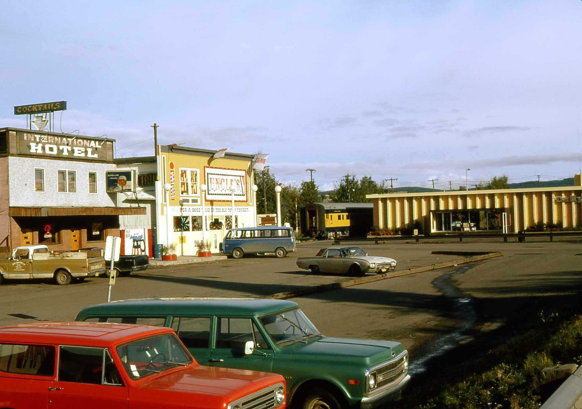 United States of America, Alaska, Fairbanks. The terminus of the north end of the Alaska Railroad with the last car beside the “Daily News Miner” building still in place, the other two buildings no longer exist.